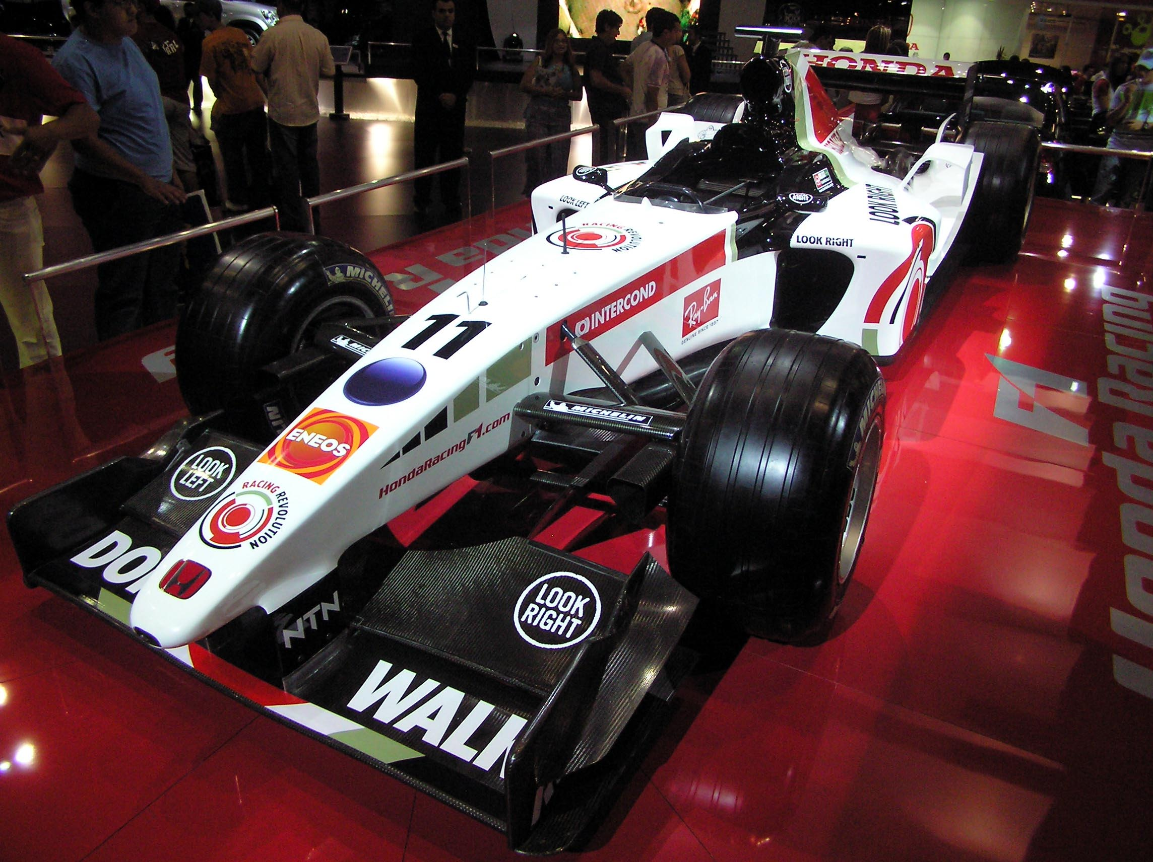 A show car of Rubens Barrichello's Honda F1 (B.A.R 006?) with car number 11 at the Salão Internacional do Automóvel (International Automobile Trade Show).